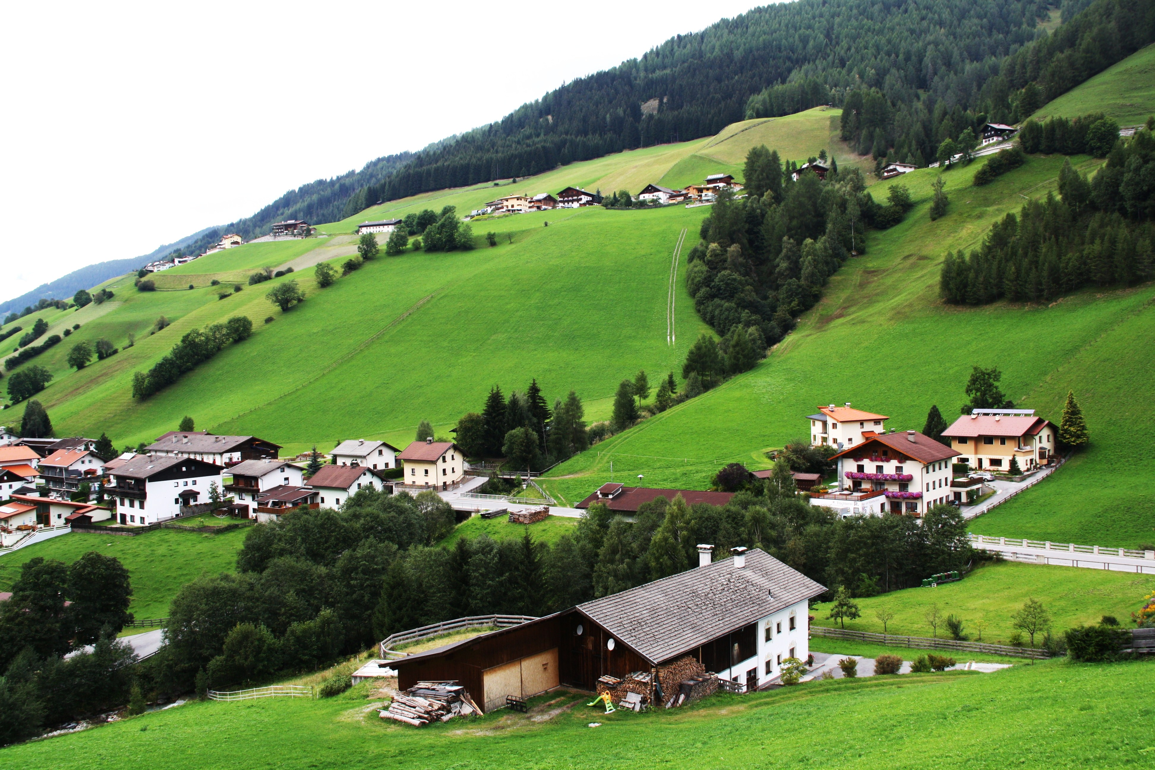 Austria, Tyrol (state), Navis. The village is scattered along the regional road L 228 (Naviser straße).